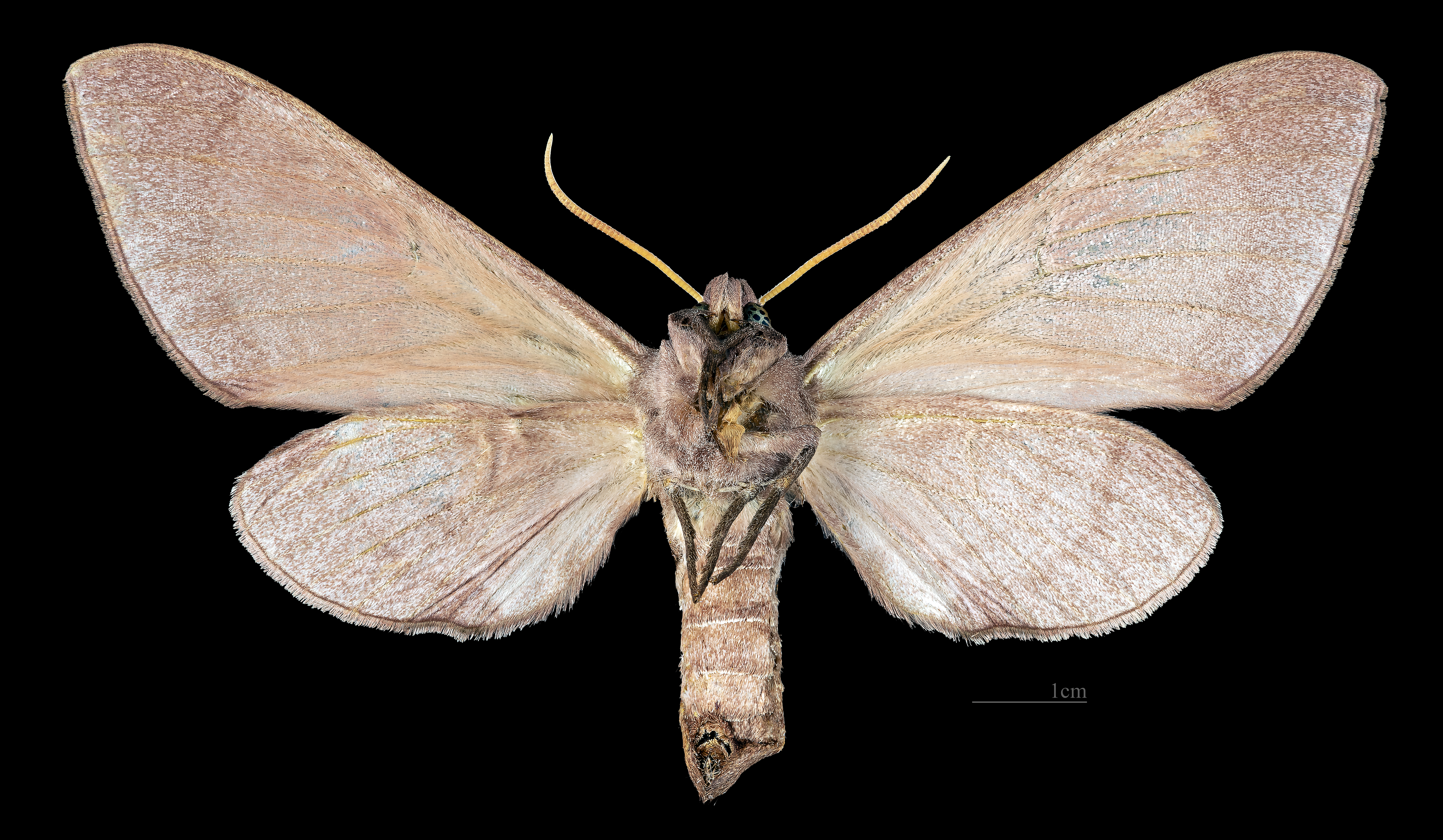 Agnosia orneus - △ Ventral side Collection of the Mathematician Laurent Schwartz